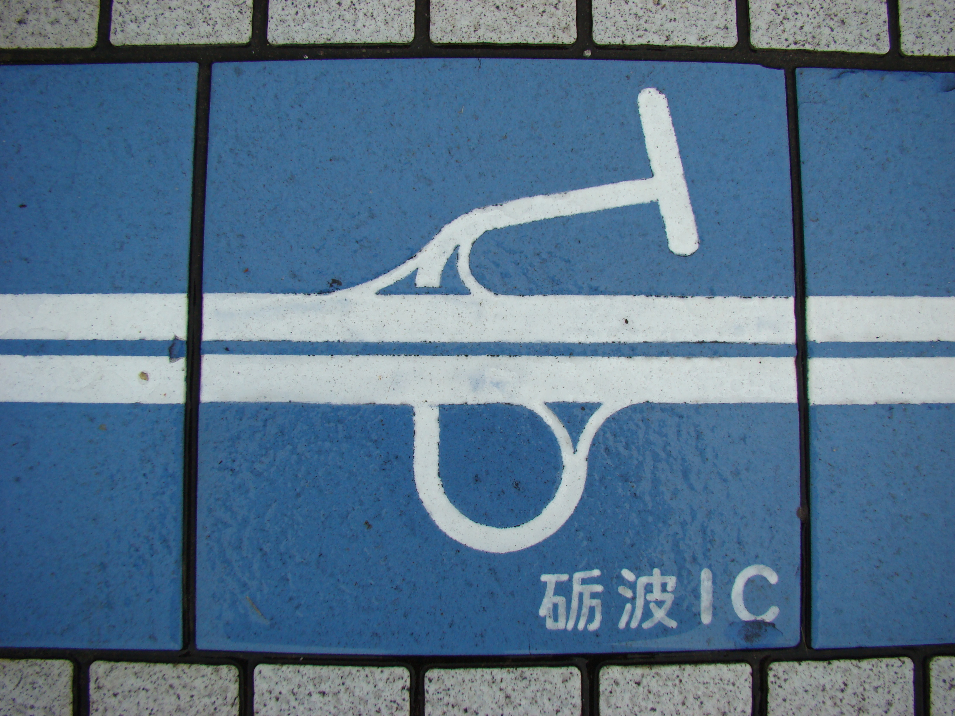 Tile which shows the shape of Tonami Interchange on the Hokuriku Expressway, installed at Nadachi Tanihama Service Area in Chayagahara, Joetsu City, Niigata Prefecture, Japan